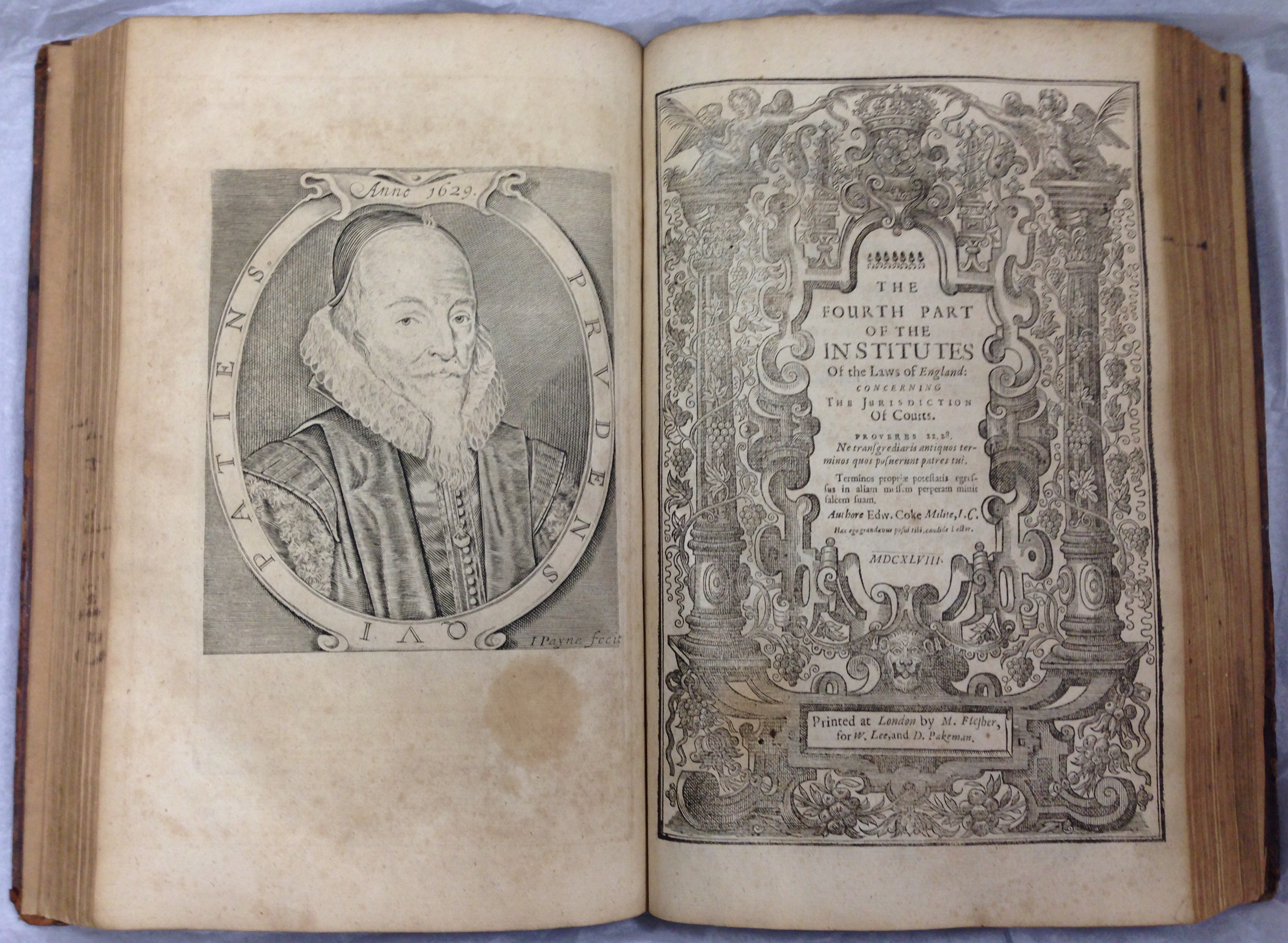 Frontispiece and title page of Edward Coke (1648) The Fourth Part of the Institutes of the Laws of England: Concerning the Jurisdiction of the Courts (2nd ed.), London: Printed by M[iles] Flesher for W[illiam] Lee and D[aniel] Pakeman OCLC: 294863631. The frontispiece has an engraving of Coke by John Payne (1607–1647) dated 1629, that is, when Coke was aged 77. The inscriptions on the engraving are as follows: Around the portrait: "PRVDENS QVI PATIENS." ("THE PRUDENT ARE PATIENT.") Above the portrait: "Anno 1629." ("The year 1629.") Bottom right-hand corner: "I Payne fecit" ("Made by I. [Iohn = John] Payne"). For information on the title page, see "File:Edward Coke, The Fourth Part of the Institutes of the Laws of England (2nd ed, 1648, title page) - 20131124.jpg".